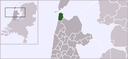 Location of Den Helder